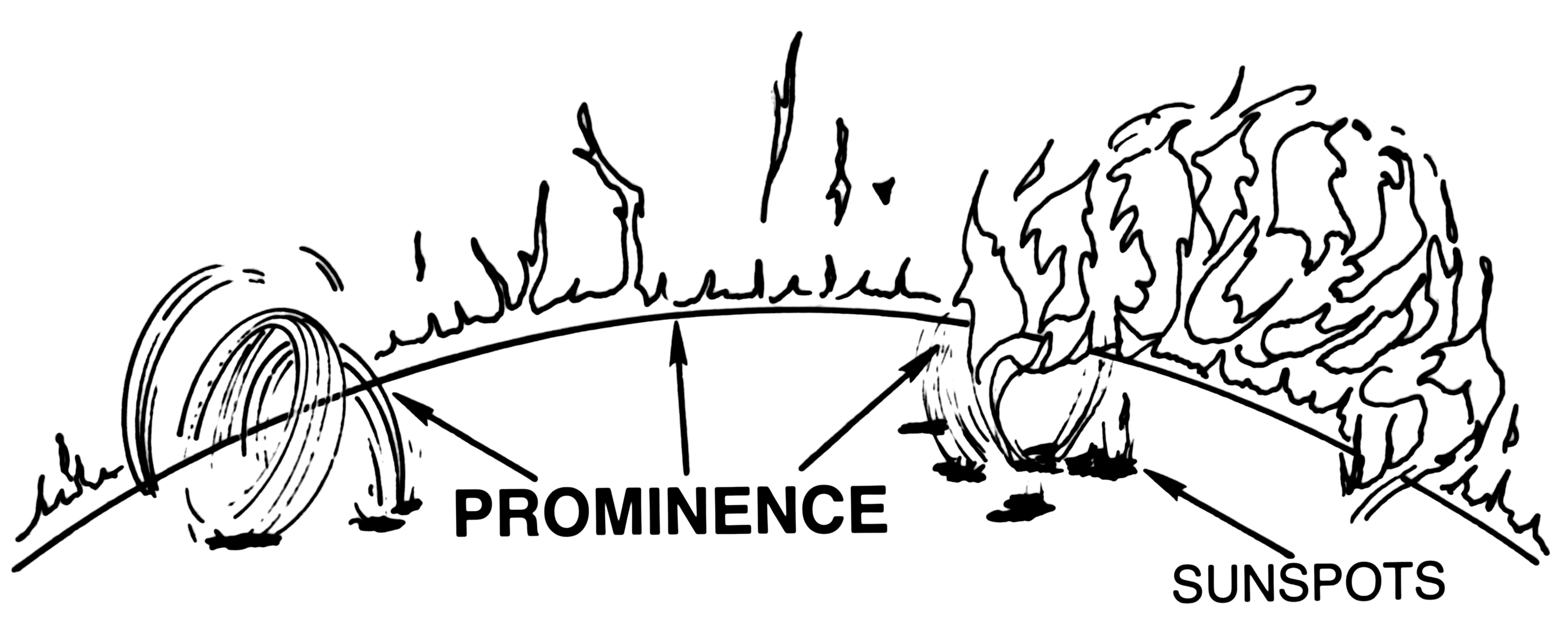 Line art drawing of prominence.